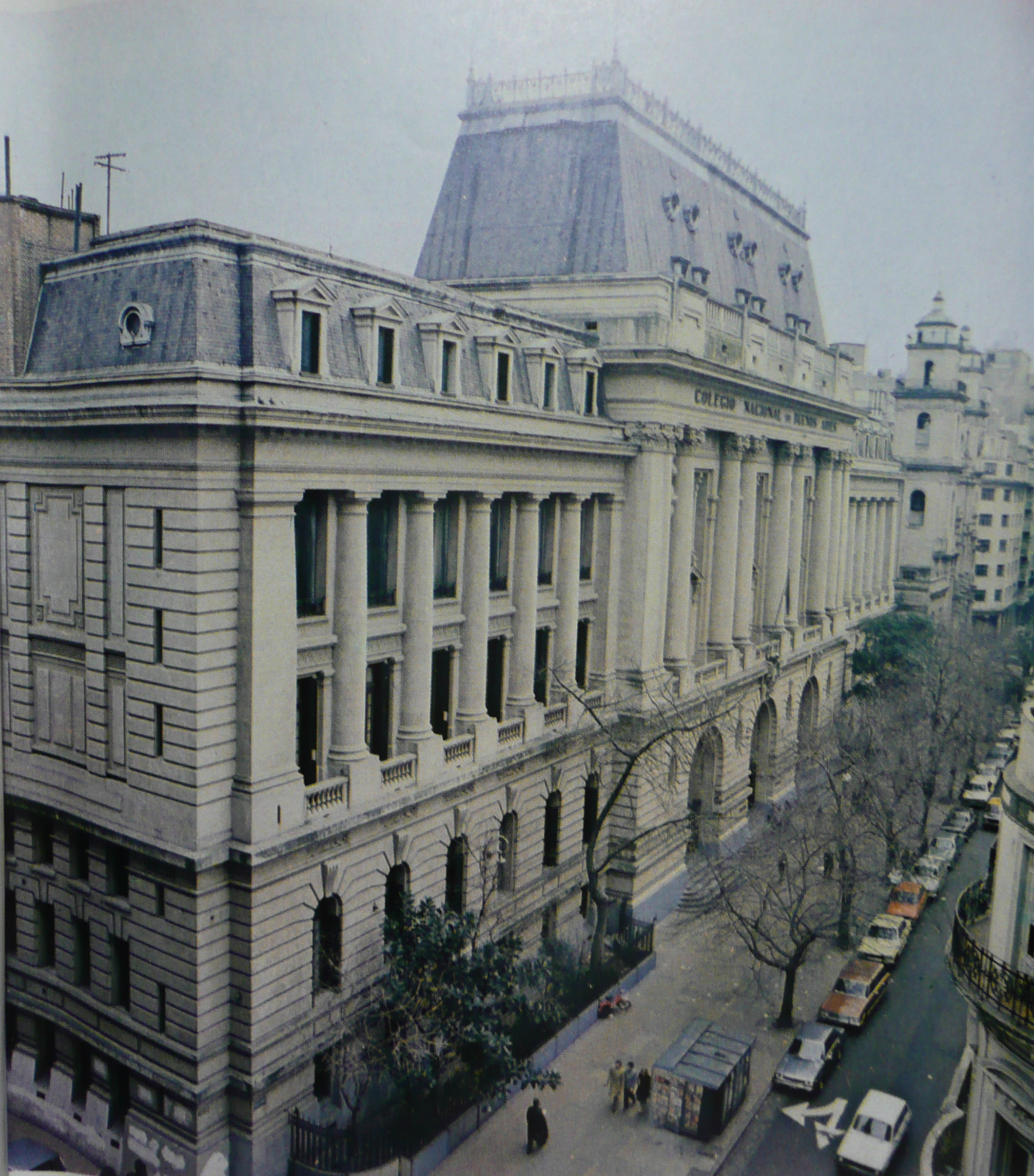 Buenos Aires National College (1984).